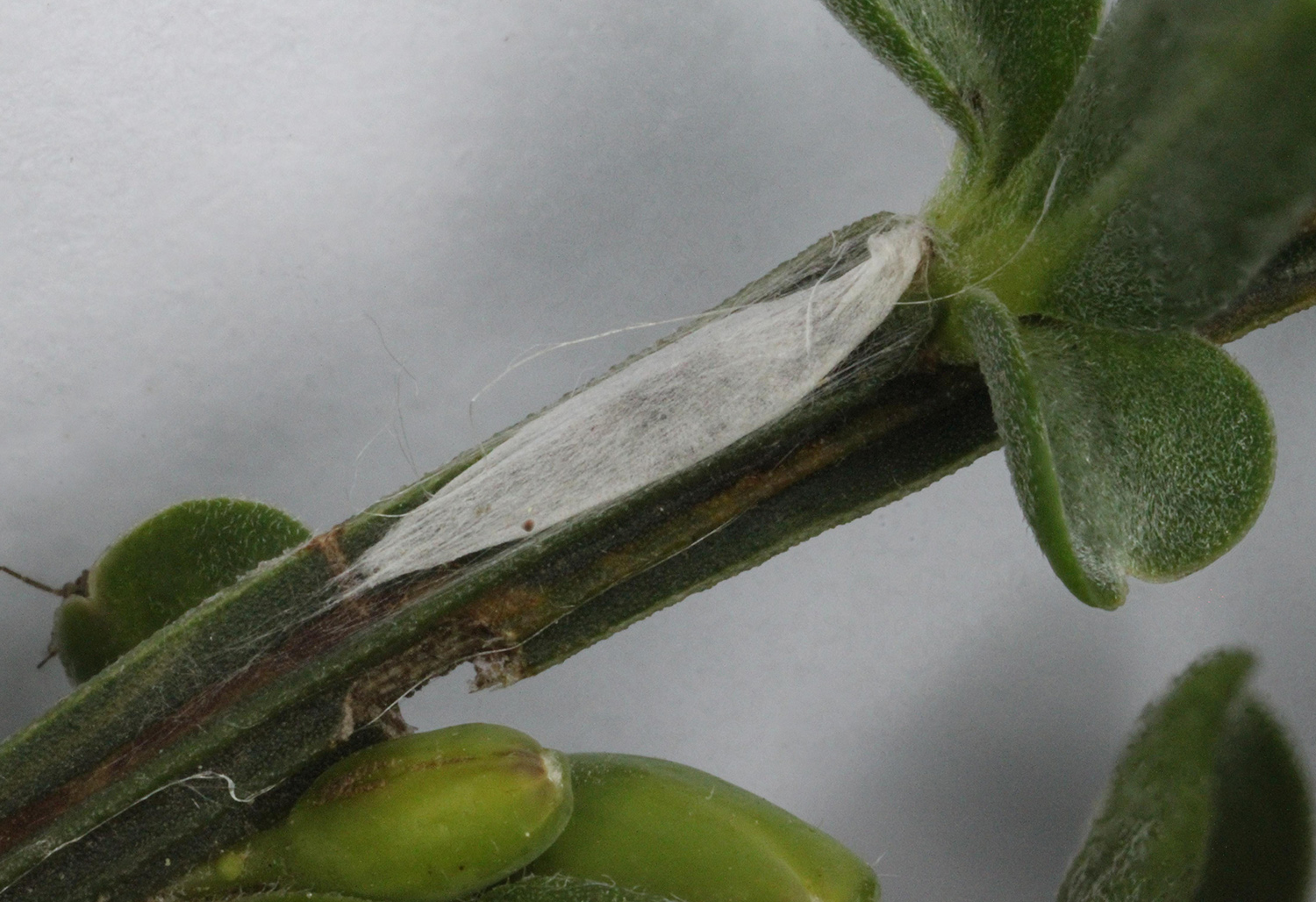 Leucoptera spartifoliella cocoon, Borras Quarry, North Wales, June 2012